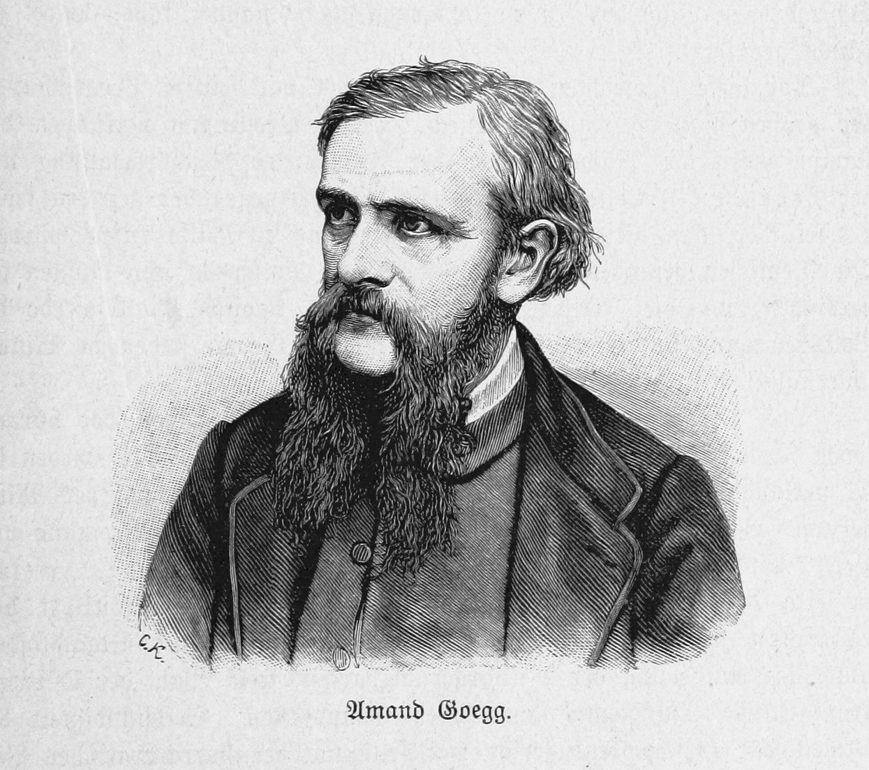 Image extracted from page 569 of Die deutsche Revolution. Geschichte der deutschen Bewegung von 1848 und 1849 ... Illustrirt, etc', by BLOS, Wilhelm. Original held and digitised by the British Library. Copied from Flickr. Note: The colours, contrast and appearance of these illustrations are unlikely to be true to life. They are derived from scanned images that have been enhanced for machine interpretation and have been altered from their originals.